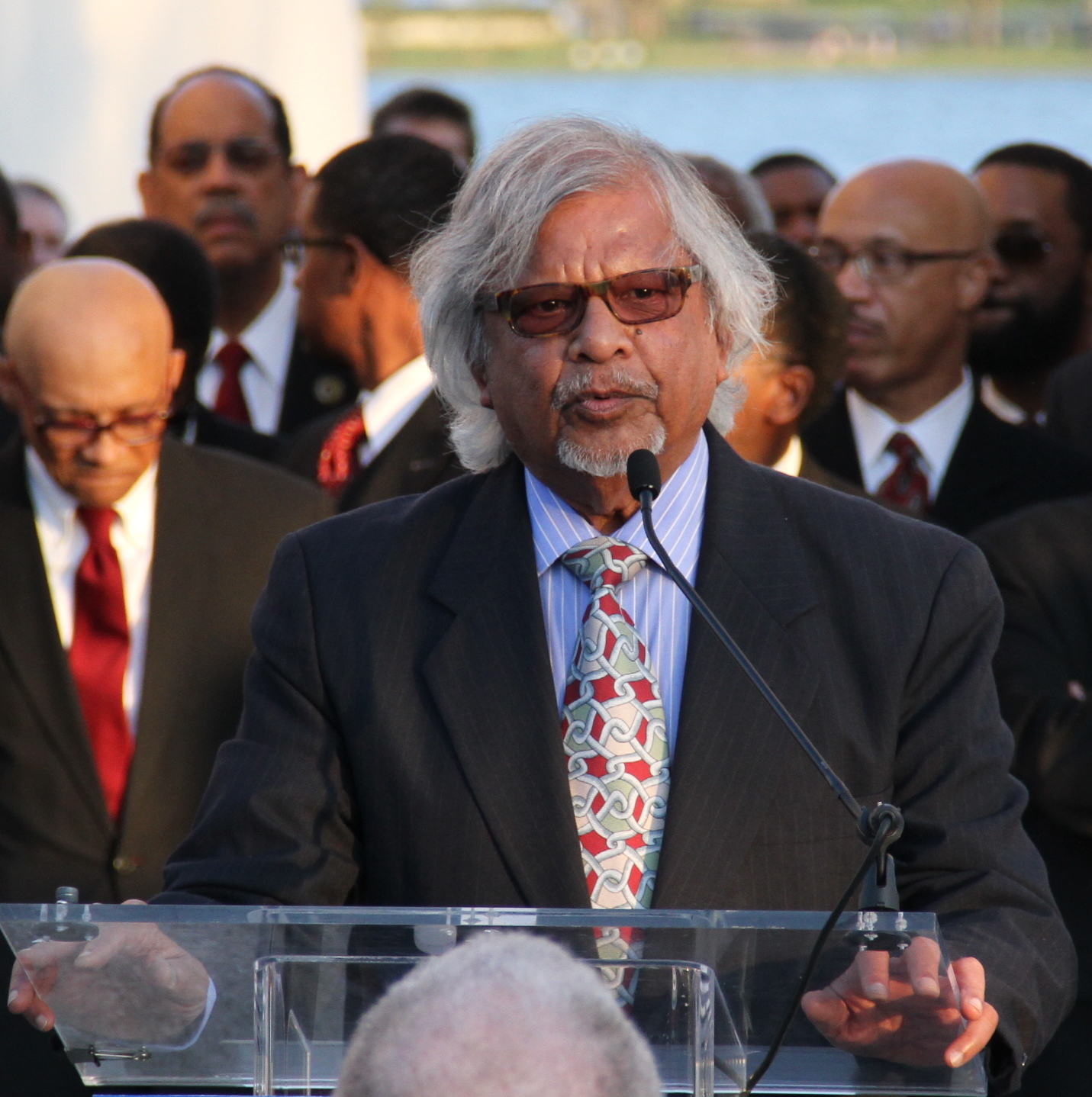 Arun Gandhi attending a candlelight vigil on the 44th anniversary of Martin Luther King, Jr.'s assasination, at the MLK memorial in Washington D.C. Photo credit at source: Jean Song/MEDILL